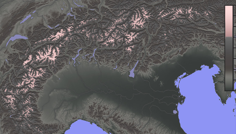 relief map of the Alps, altitudes above 2,500 m highlighted (High Alps)